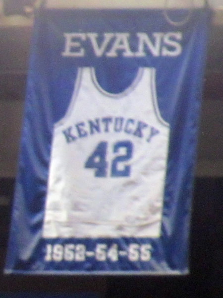 A jersey honoring Billy Evans hanging in Rupp Arena in Lexington, Kentucky